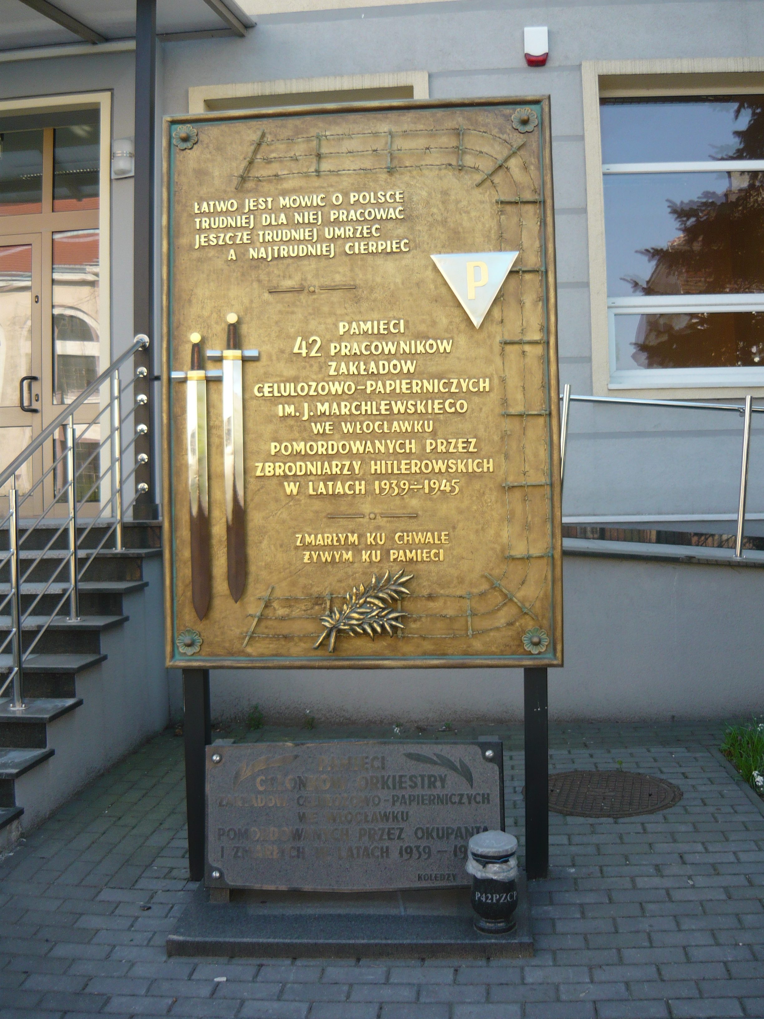 The plaque of workers from Cellulose-Paper Factory named of Julian Marchlewski in Włocławek and Orchestra members worked in assosiation with this factory, killed in Hitler's occupation from 1939 to 1945.